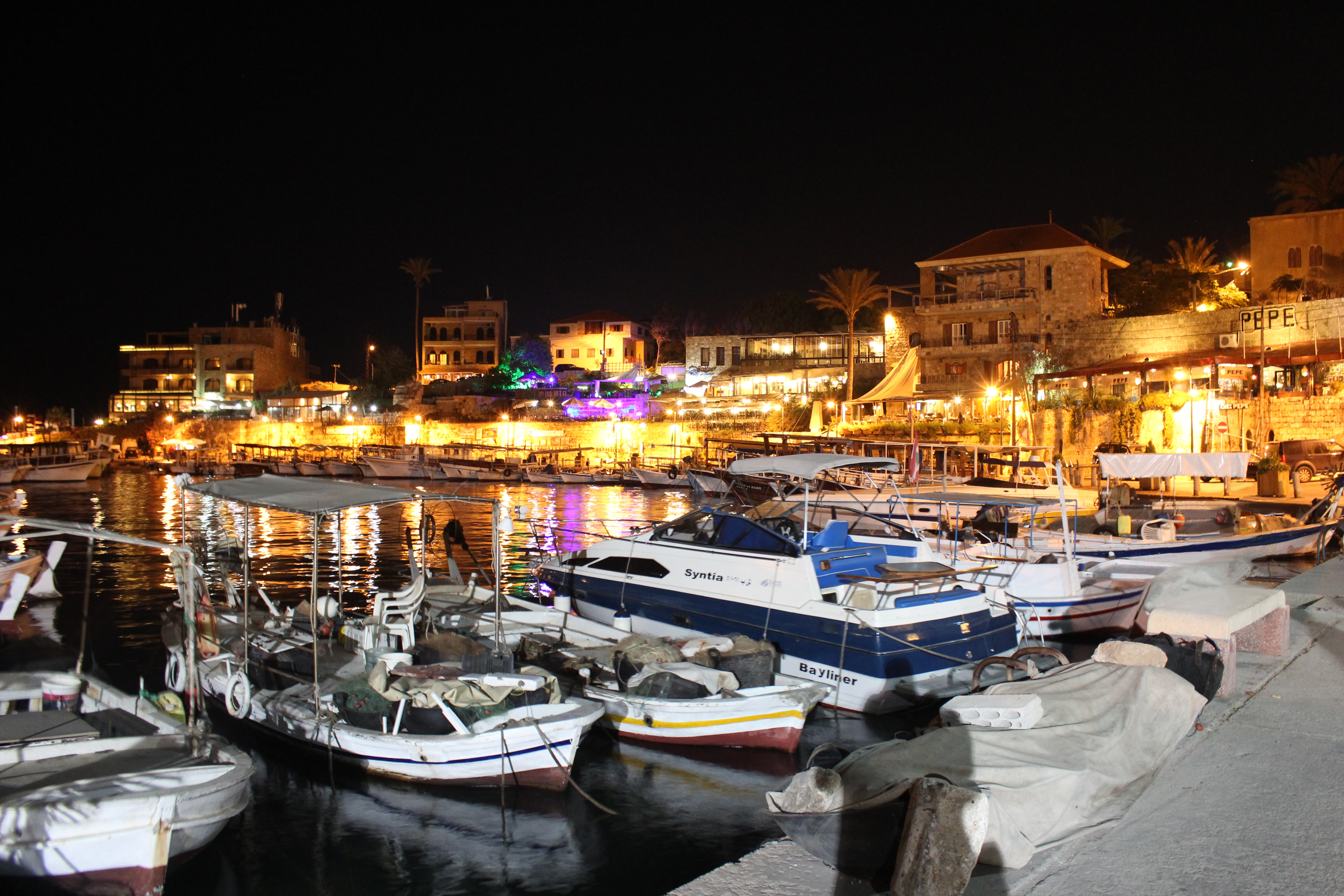 The port of Jbeil in the night